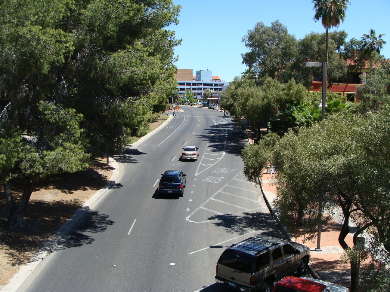 Congress Avenue, Tucson, Arizona